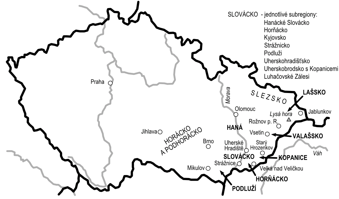 Map of ethnographical regions of Moravia, based on Plocek, Jiří: Hudba středovýchodní Evropy, p. 43. Torst 2003